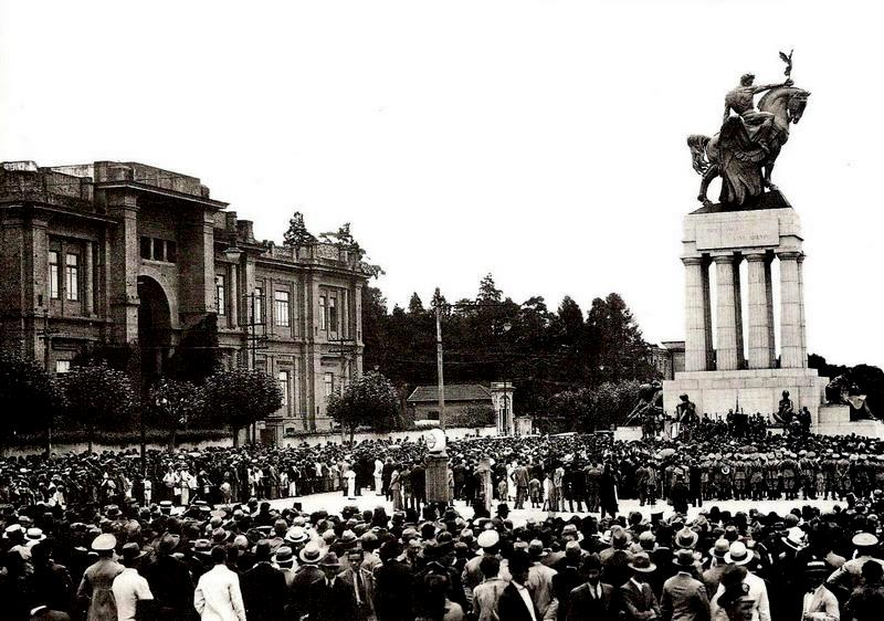 Inauguration of the Monumento to Ramos de Azevedo, in 1934. In the background, the building of the Pinacoteca do Estado de São Paulo (São Paulo, Brazil)